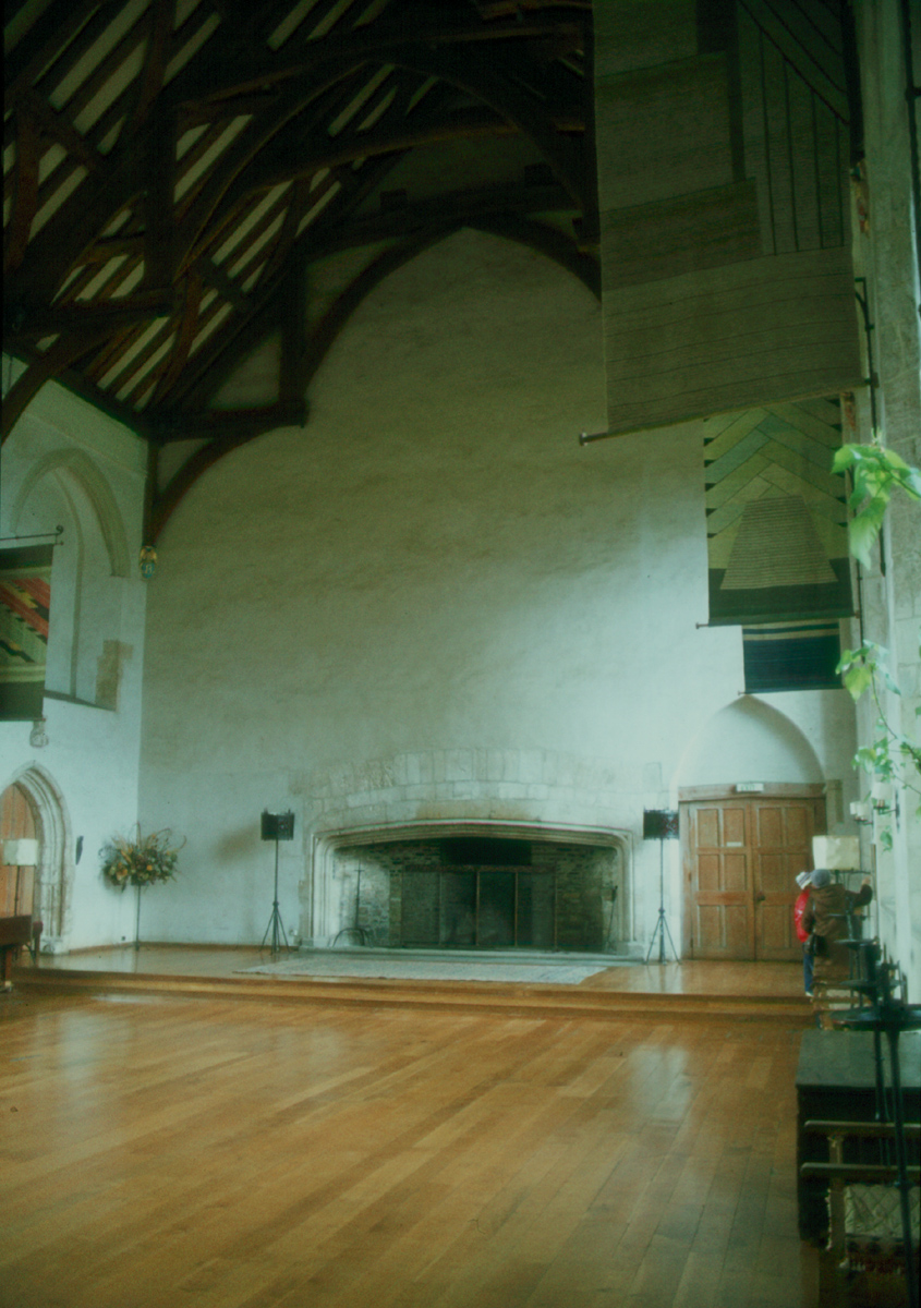 Dartington Hall Estate near the village of Totnes, located in the county of Devon/GB, Great Hall